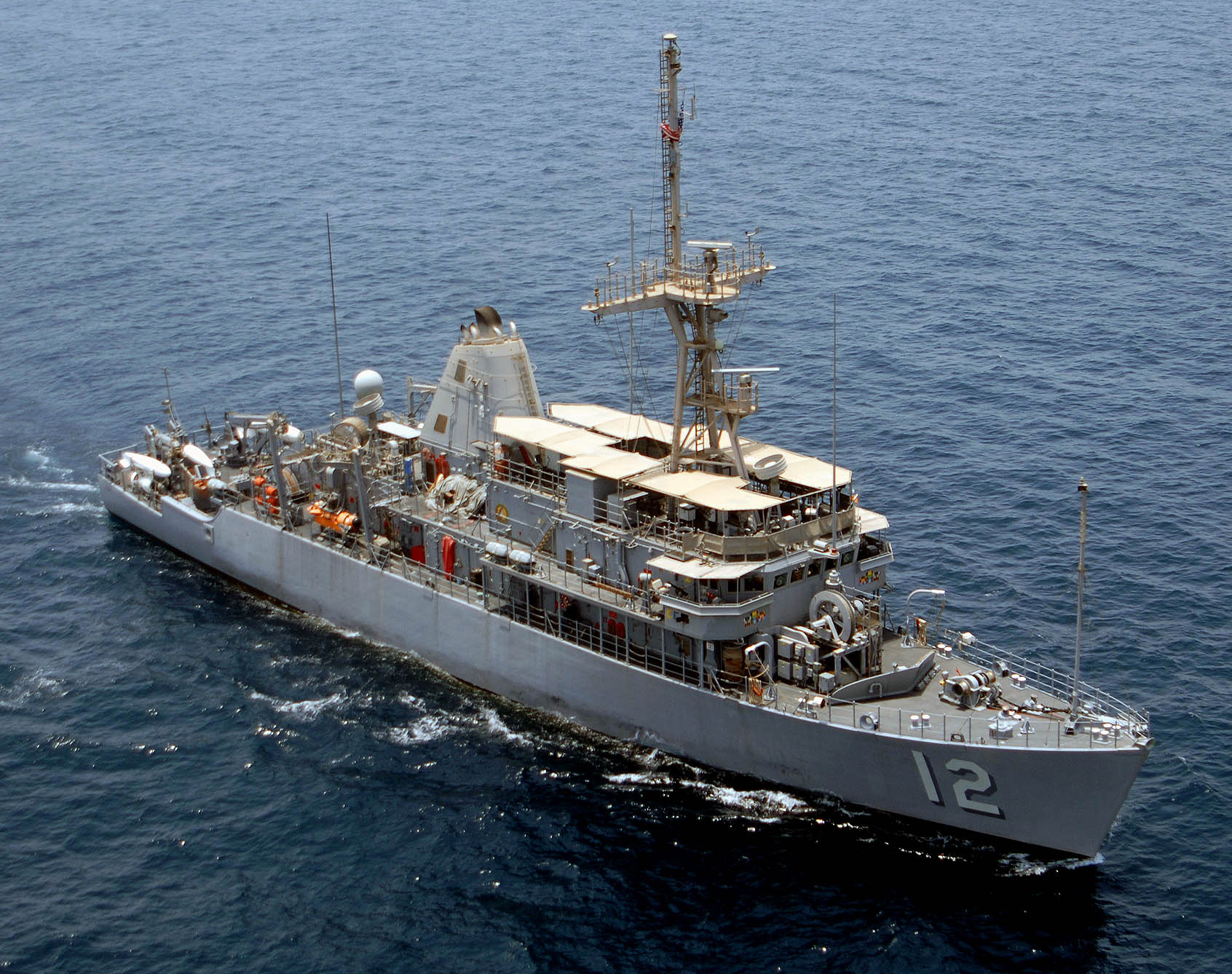 050719-N-5526M-012 - The Avenger-class mine countermeasure ship USS Ardent (MCM-12) conducts surface action group operations during exercise Nautical Union. Nautical Union is a joint exercise directed through Commander Destroyer Squadron Five Zero (COMDESRON 50) between the U.S. and coalition forces. Nautical Union operations include conducting Maritime Security Operations (MSO) training, air defense, anti submarine warfare, surface warfare, mine counter measures, electronic warfare, replenishment at sea (RAS) and command and control. Maritime Security Operations (MSO) set the conditions for security and stability in the maritime environment as well as complements the counter-terrorism and security efforts of regional nations. (RELEASED)